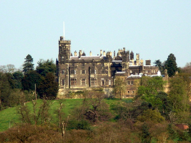 Merevale Hall, Atherstone Merevale Hall, Atherstone, home of the Dugdale family.